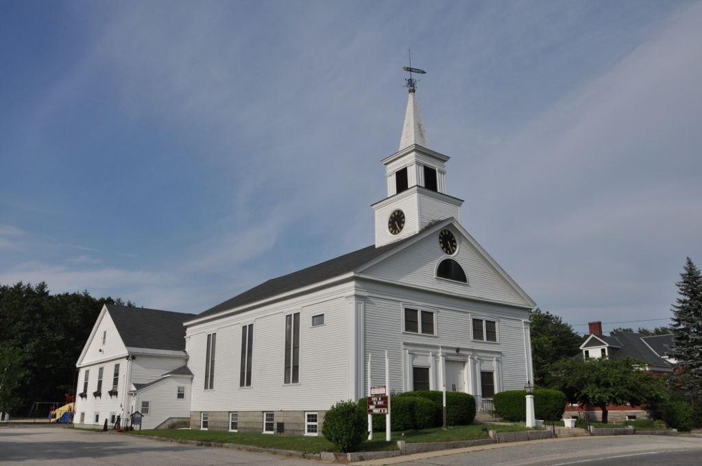 The First Congregational Church in Pelham, New Hampshire.